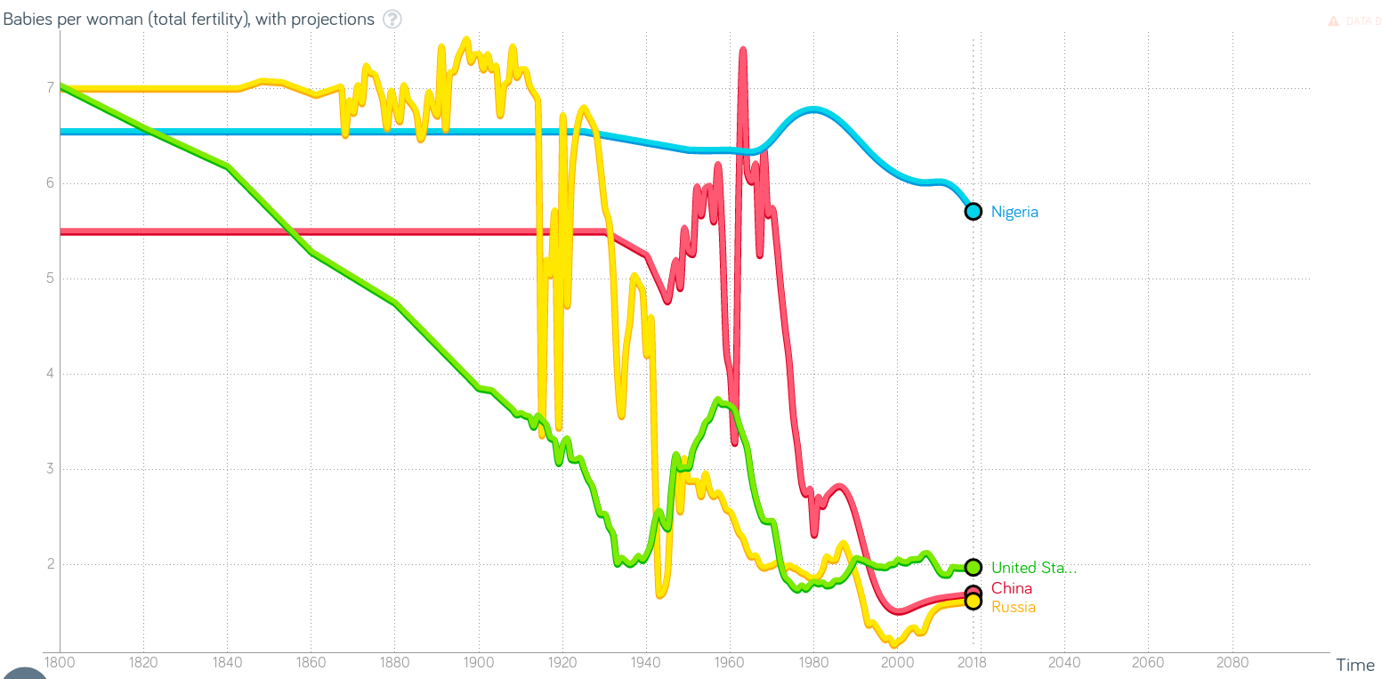 chart of total fertility in selected countries - United States, Russia, China and Nigeria, from 1800 to 2018